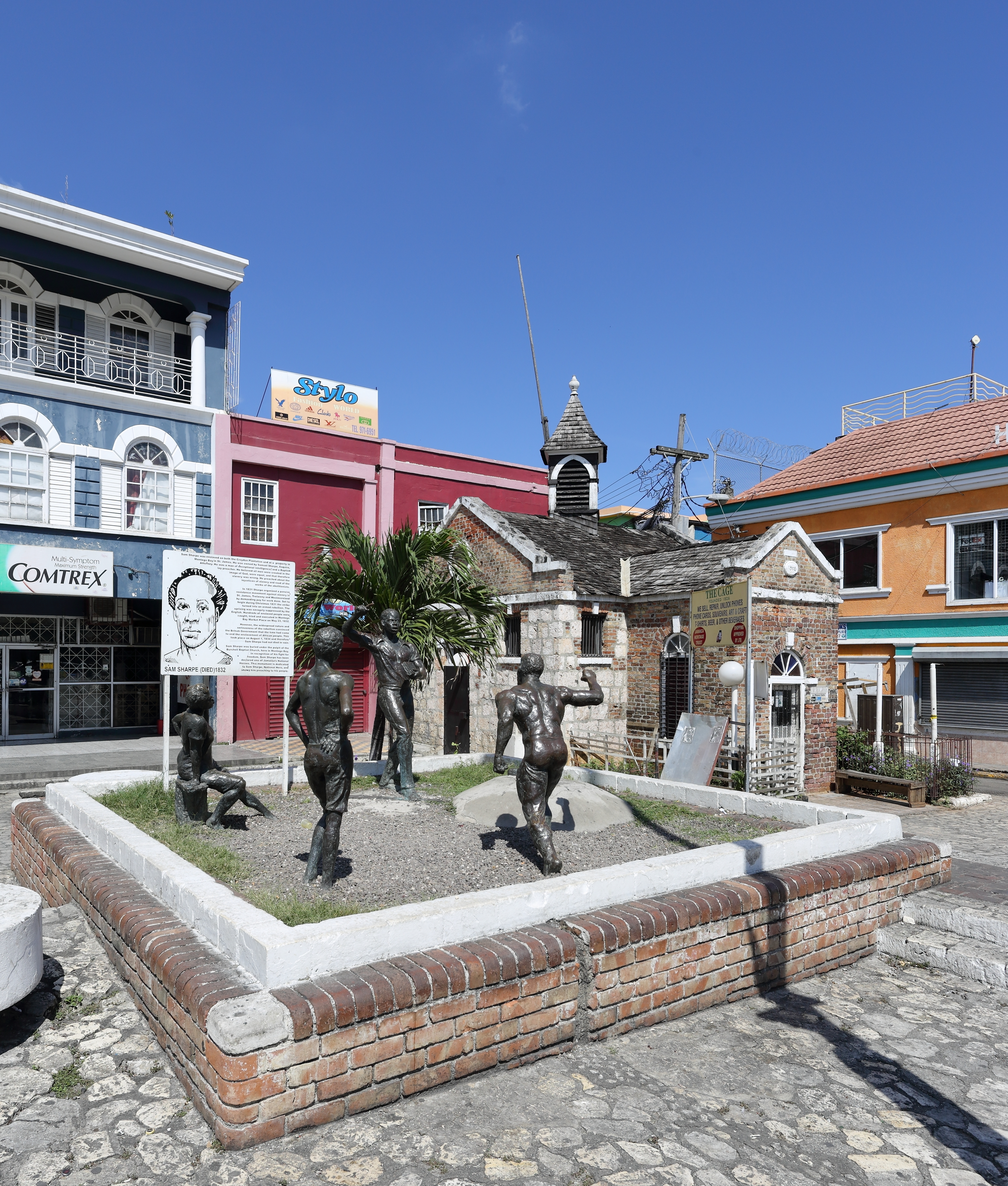 Sam Sharpe Memorial and The Cage, March 2016